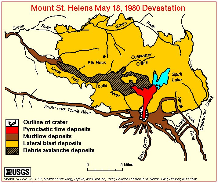 Map of the area around Mount St. Helens which were affected by the May 18, 1980 eruption. North is to the top.